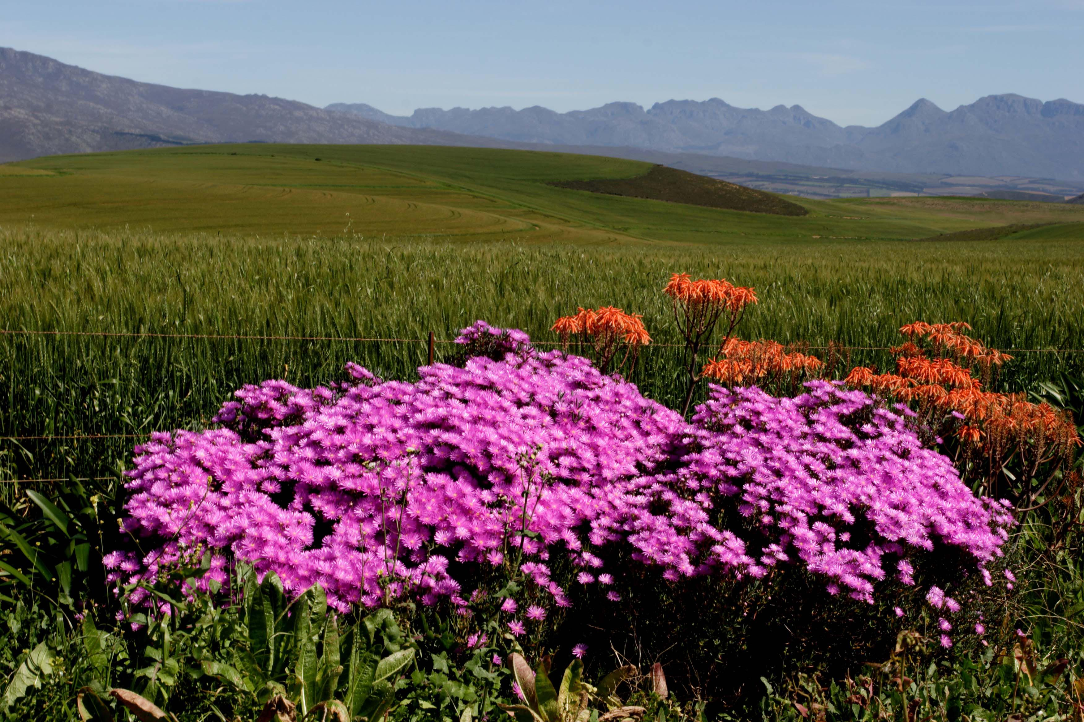 The Overberg is home to an immense diversity of wild flowers and fynbos in South Africa . Vue de Western Cape en Afrique du Sud.